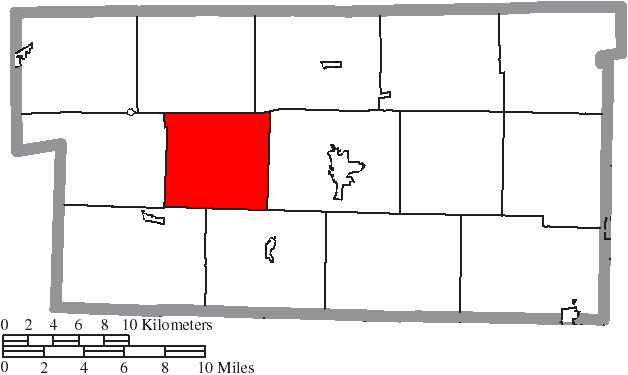 Map of the municipal and township boundaries of Holmes County, Ohio, United States, as of the 2000 census, with the location of Monroe Township highlighted. Township borders are shown only in unincorporated areas in order to differentiate incorporated and unincorporated areas more clearly.